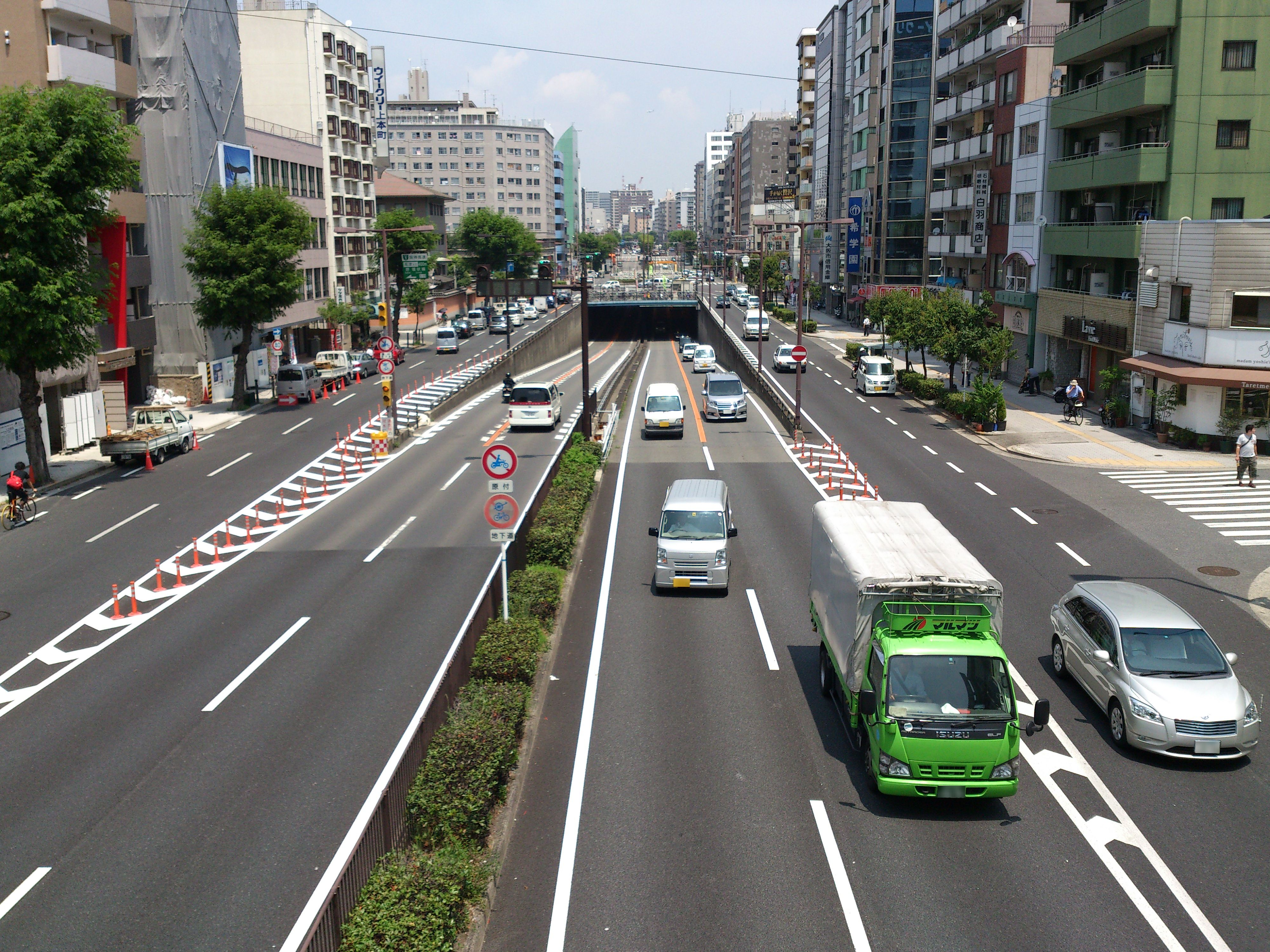 Tanimachi-9 Crossing in Tennōji-ku, Osaka, Japan.